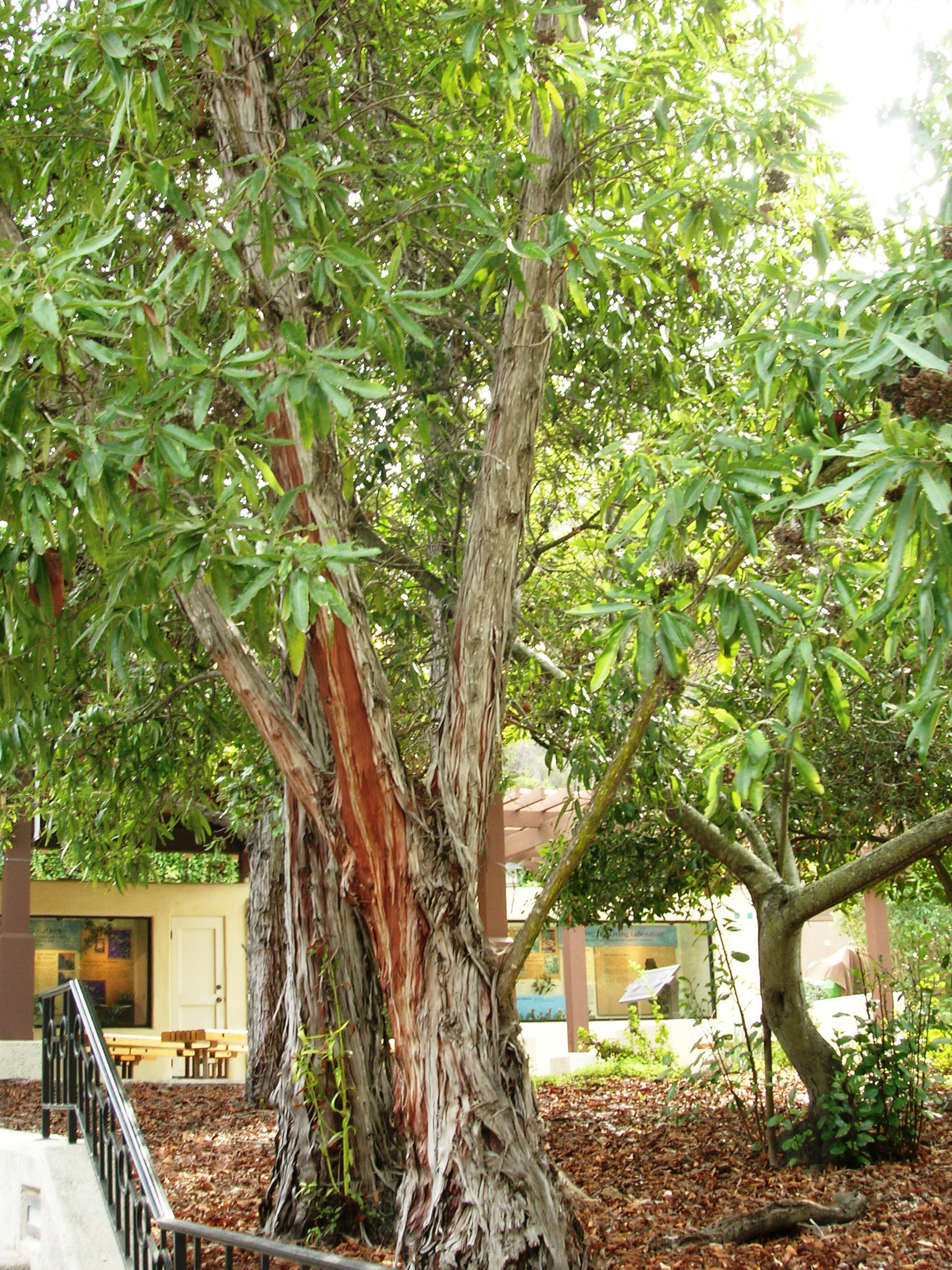 Lyonothamnus floribundus floribundus — Catalina Ironwood. At the Wrigley Botanical Garden, on Catalina Island, Los Angeles County, California.